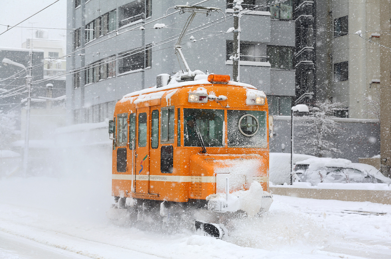 Sapporo Street Car Type new Yuki 10 ( No.11 ) snow broom car in action.